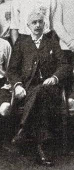 N.L. Jackson of Corinthian F.C.(was a prime mover in the creation of the Amateur Cup.)